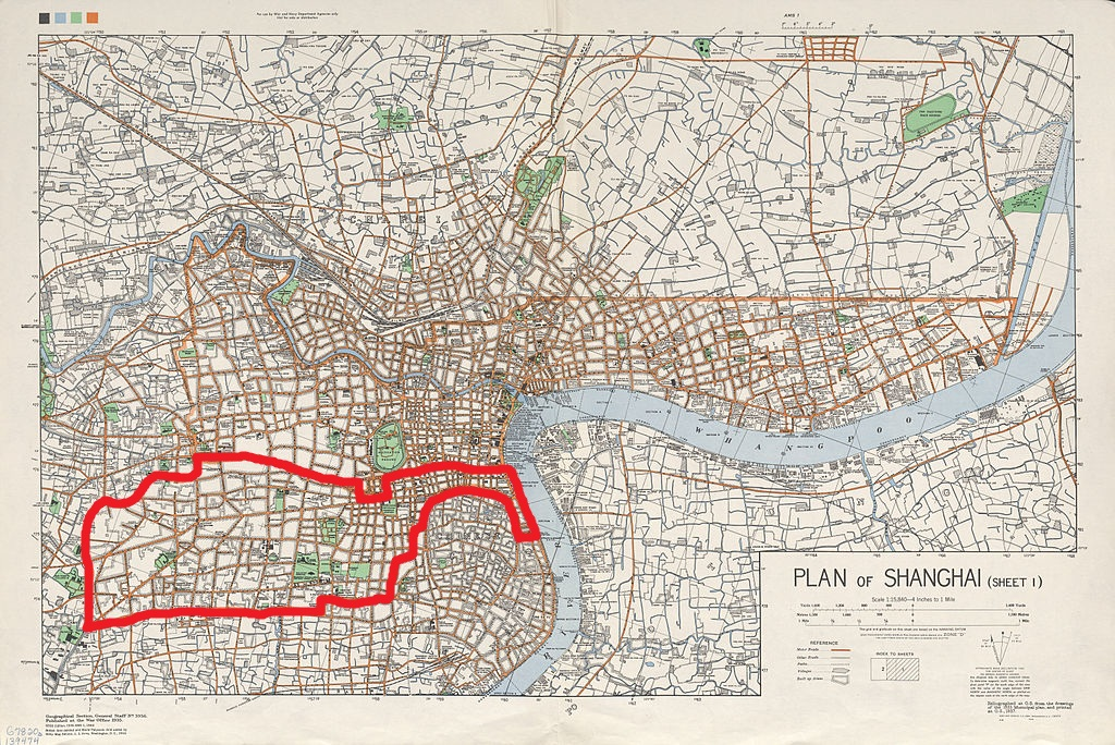 The picture shows a linemapping over the former French Concession in Shanghai, using this image File:Shanghai 1935 S1 AMS-WO.jpg from Wikimedia Commons.